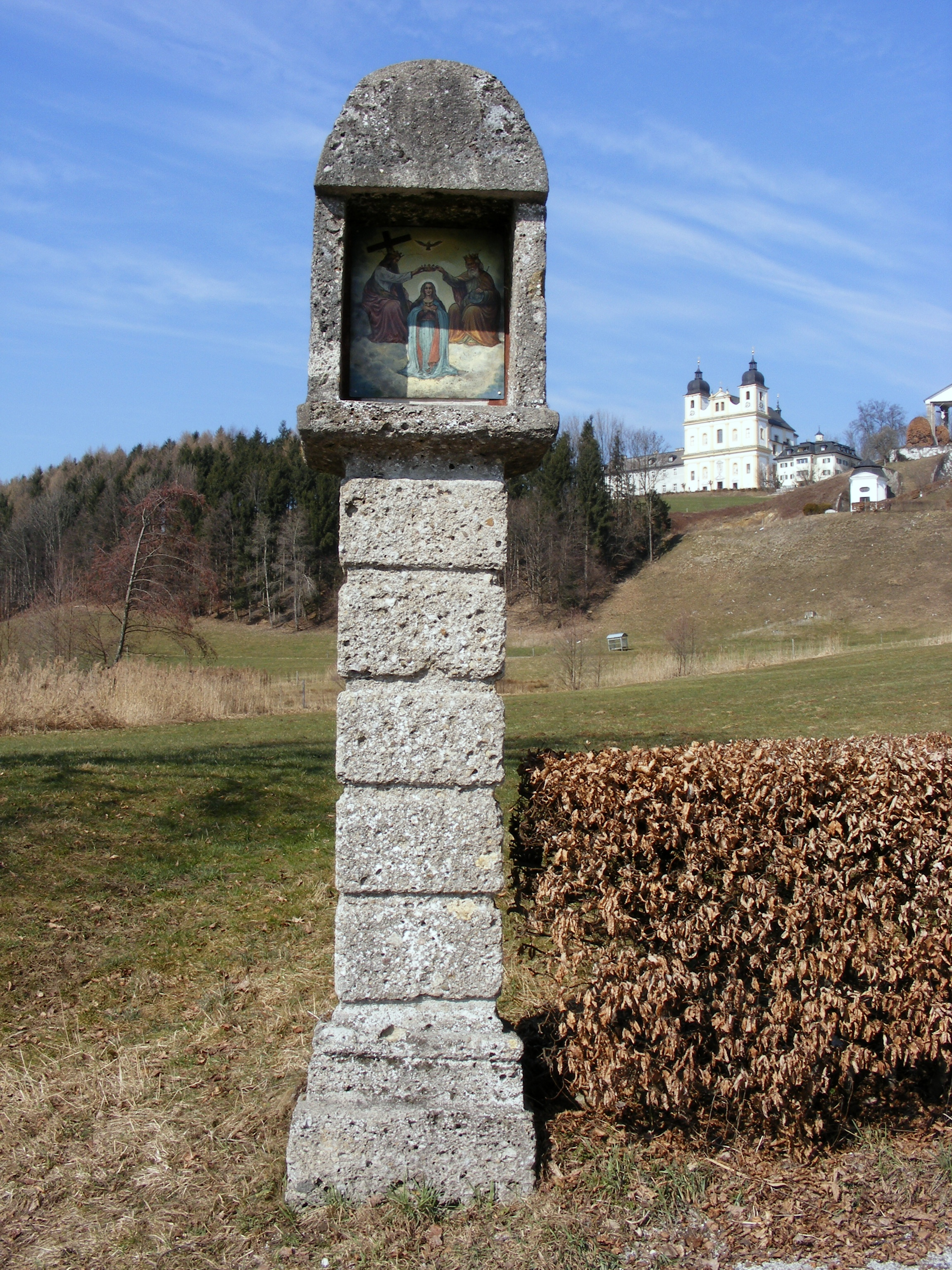 Bergheim (Austrian state of Salzburg): a painting of coronation of Mary in heaven; in the background: Maria Plain basilica